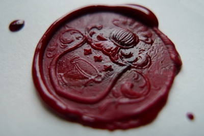 A photograph of a wax seal. The wax seal shows the Brodtkorb family coat of arms.